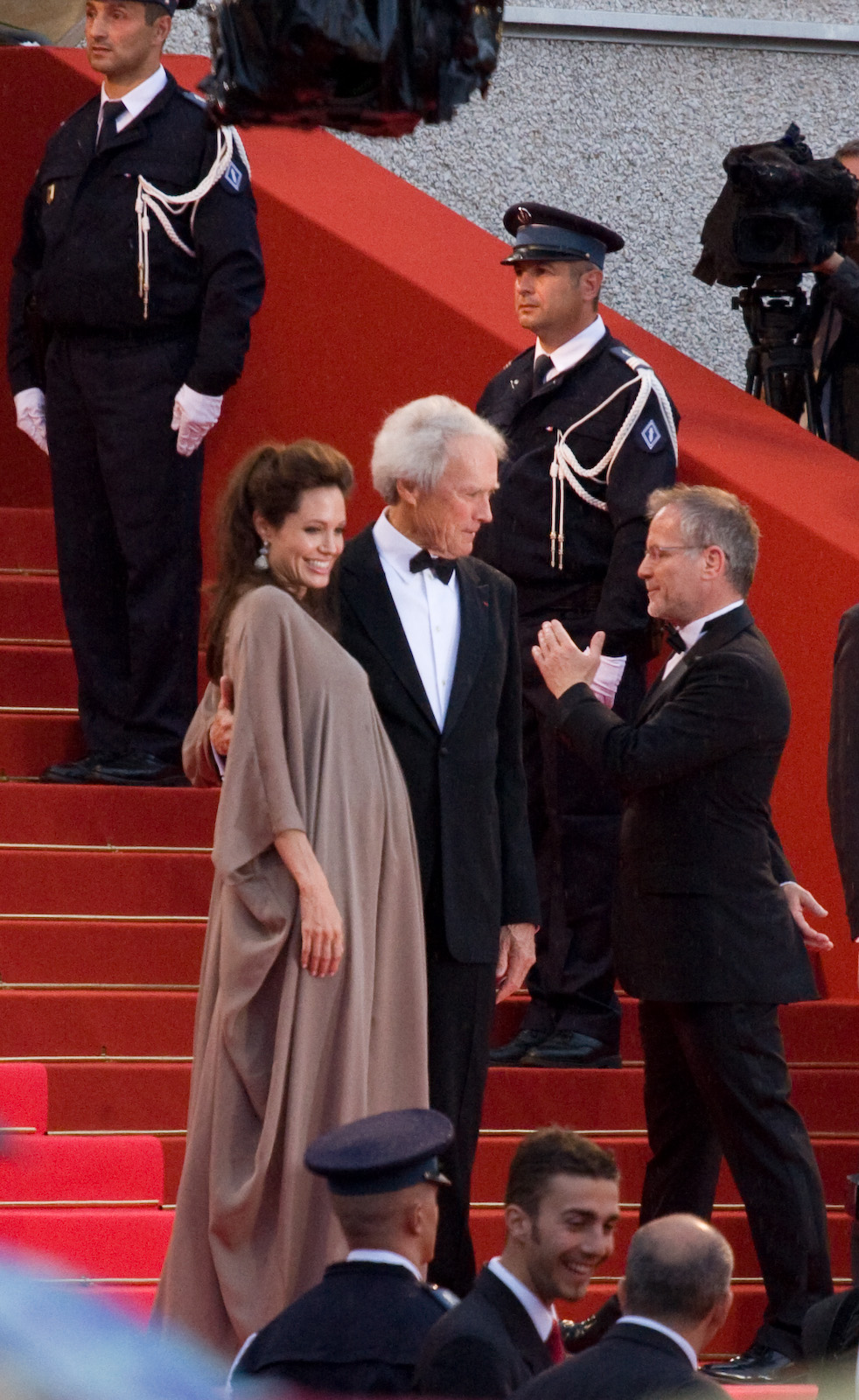 Angelina Jolie and Clint Eastwood on the red carpet of the 2008 Cannes Film Festival for their movie Changeling (at that time untitled The Exchange)